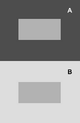 Illustrates the concept of simultaneous contrast